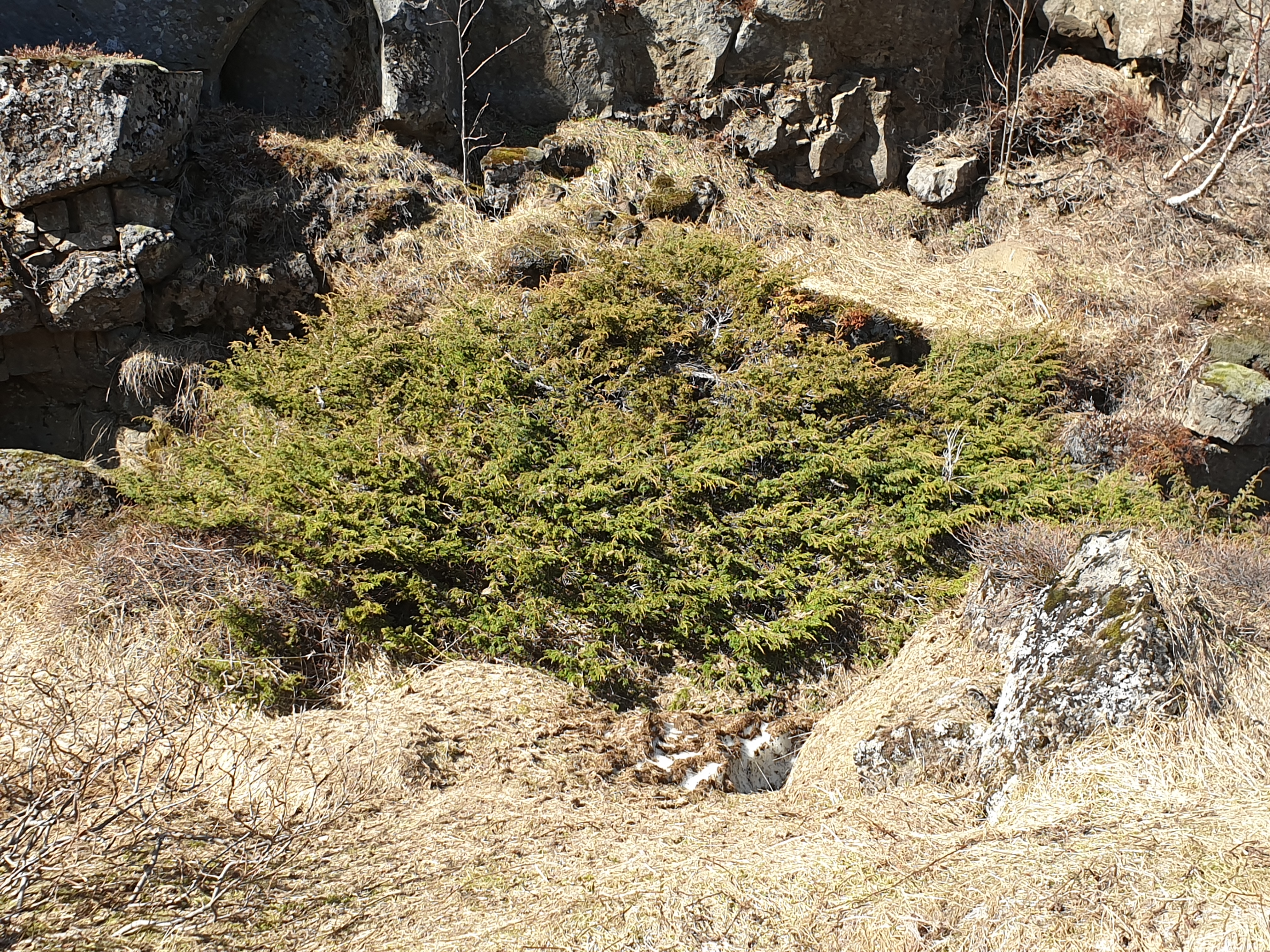 Juniper in Iceland